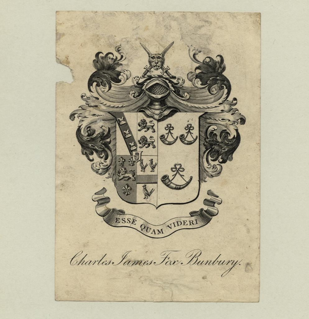 Armorial/Heraldic Bookplates. Subject: Coat of arms; Shields; Armor; Animals. Subject - Personal Name: Bunbury, Charles James Fox. Text reads: Esse quam videri